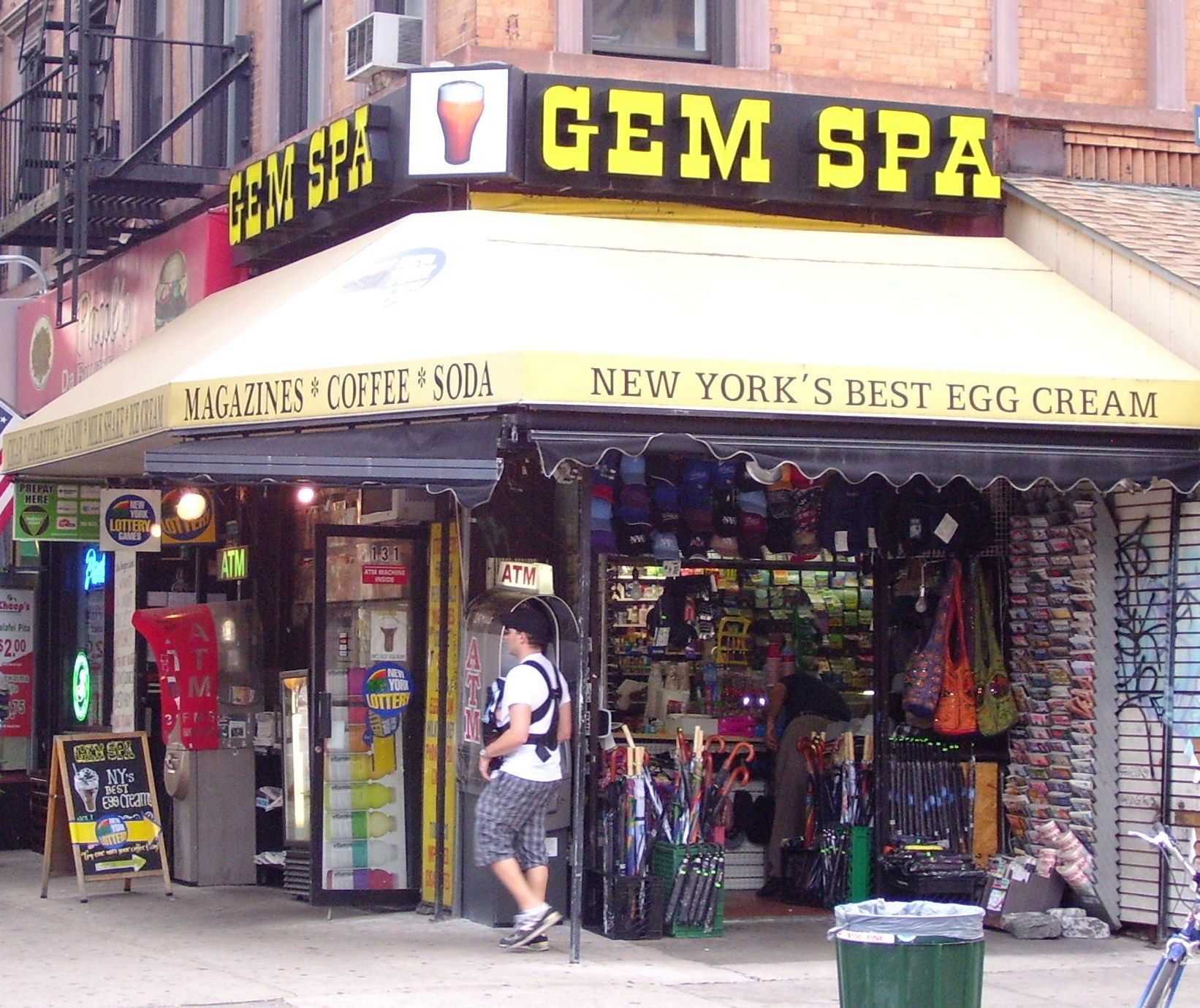 Gem Spa, in the East Village, Manhattan, New York City, is that mainstay of any self-respecting Manhattan neighborhood: the corner store. It's well-known for making egg creams.